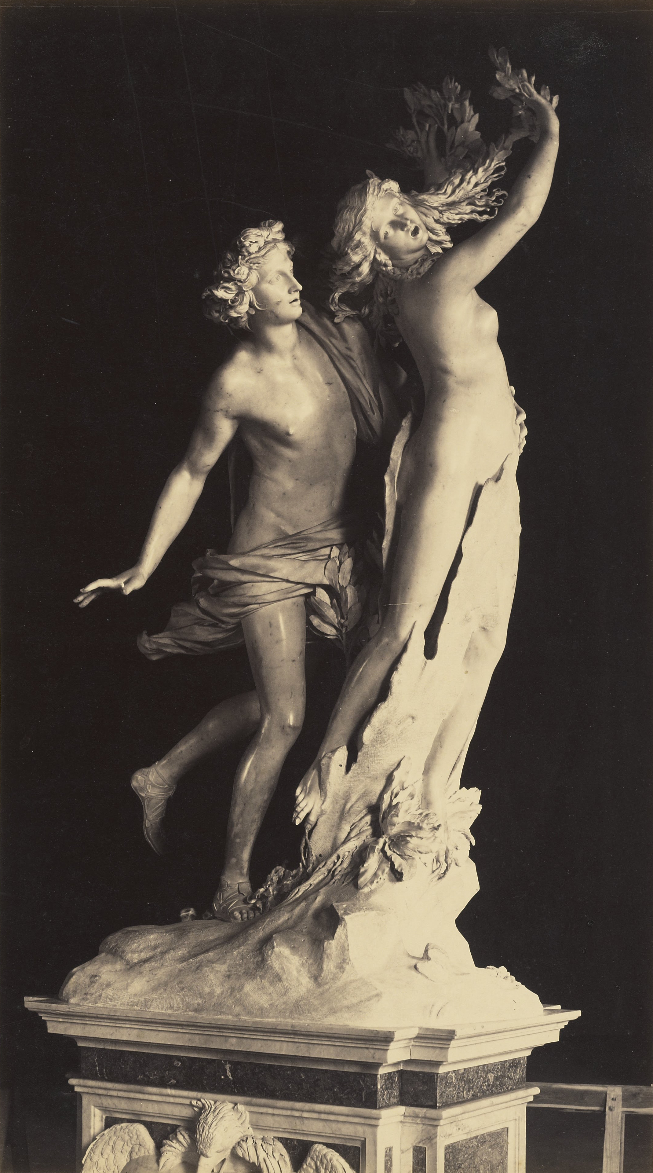 Apollo and Daphne, by Bernini; photograph by James Anderson